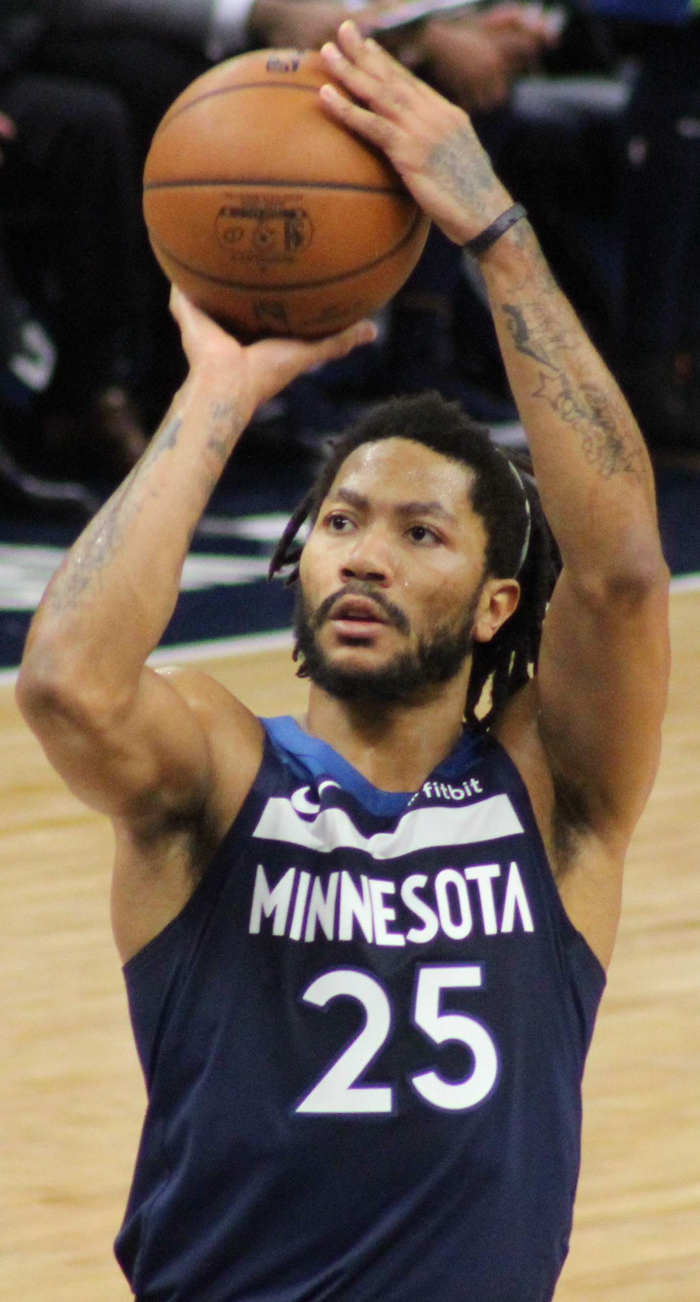 Derrick Rose of the Minnesota Timberwolves